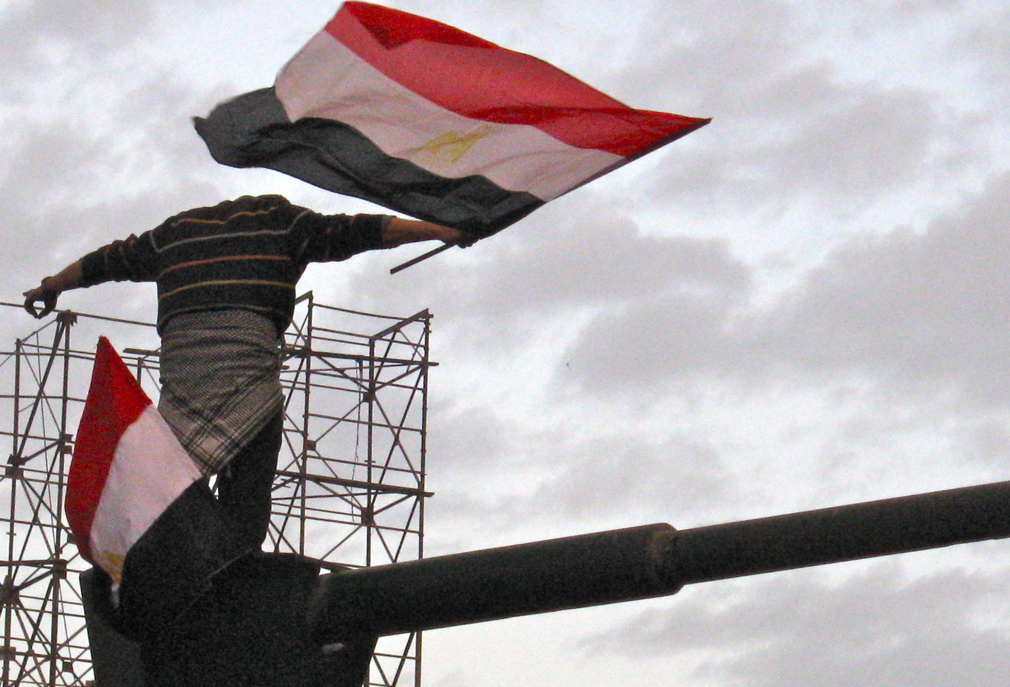 You shall rise, Egypt. 6th of February - I went to the demonstration today and it was one of the most peaceful events I ever attended. Truly, those demonstrators deserve all the respect and appreciation, for they are true fighters. This picture reminds me of this song: Living - Mattafix